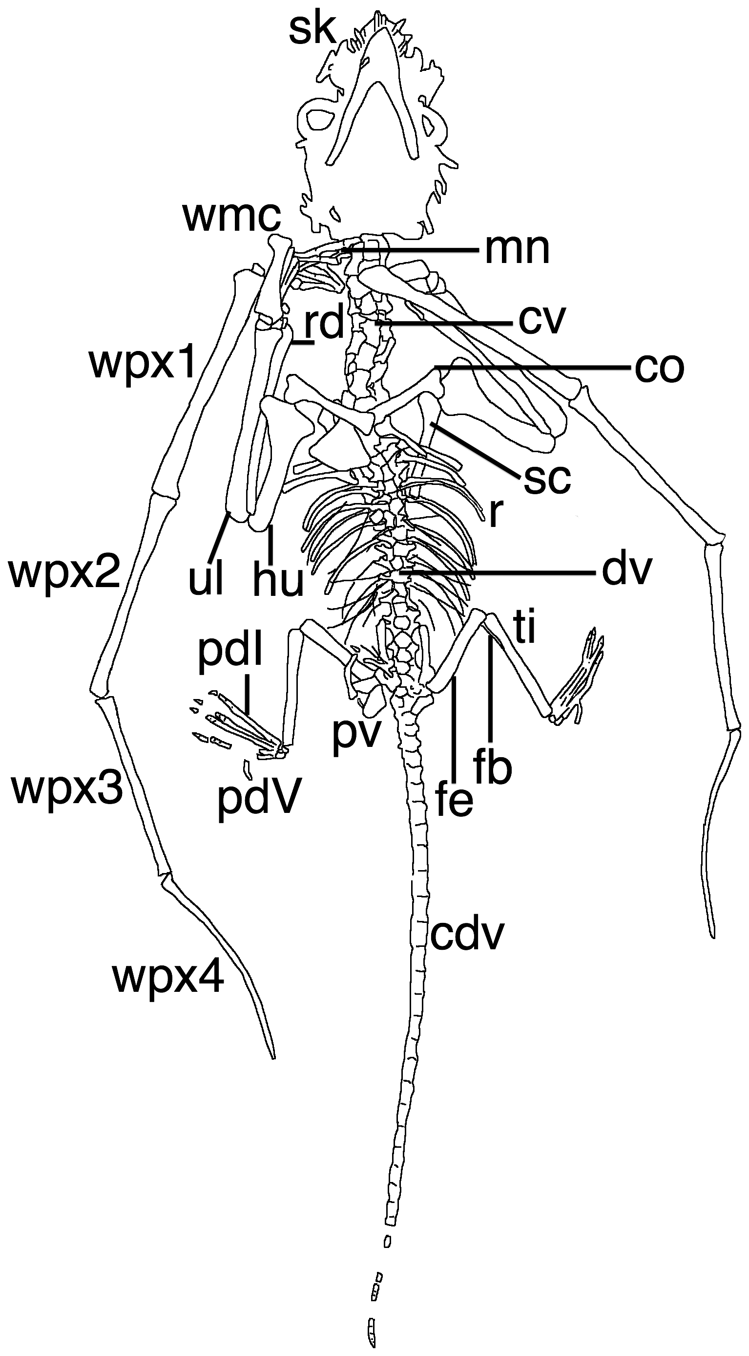 Line drawing of the holotype of Bellubrunnus. Abbreviations as follows for this and, where appropriate, subsequent figures: cdv, caudal vertebrae; chv, chevron; co, coracoid; cp, carpus; cs, cristospine; cr, cervical rib; cv, cervical vertebrae; dr, dorsal rib; dv, dorsal vertebrae; fb, fibula; fe, femur; g, gastralium; hu, humerus; il, ilium; ish, ischium; mc, metacarpal; md, manual digit; mn, manus; pb, pubis; pd, pedal digit; ppb, prepubis; ptd, pteroid; r, ribs; rad, radius; sc, scapula; sk, skull; st, sternum; ul, ulna; wmc, wing metacarpal; wpx, wing phalanx. Single column width.